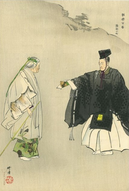 Scene from Nô-play "Ōmu Komachi"